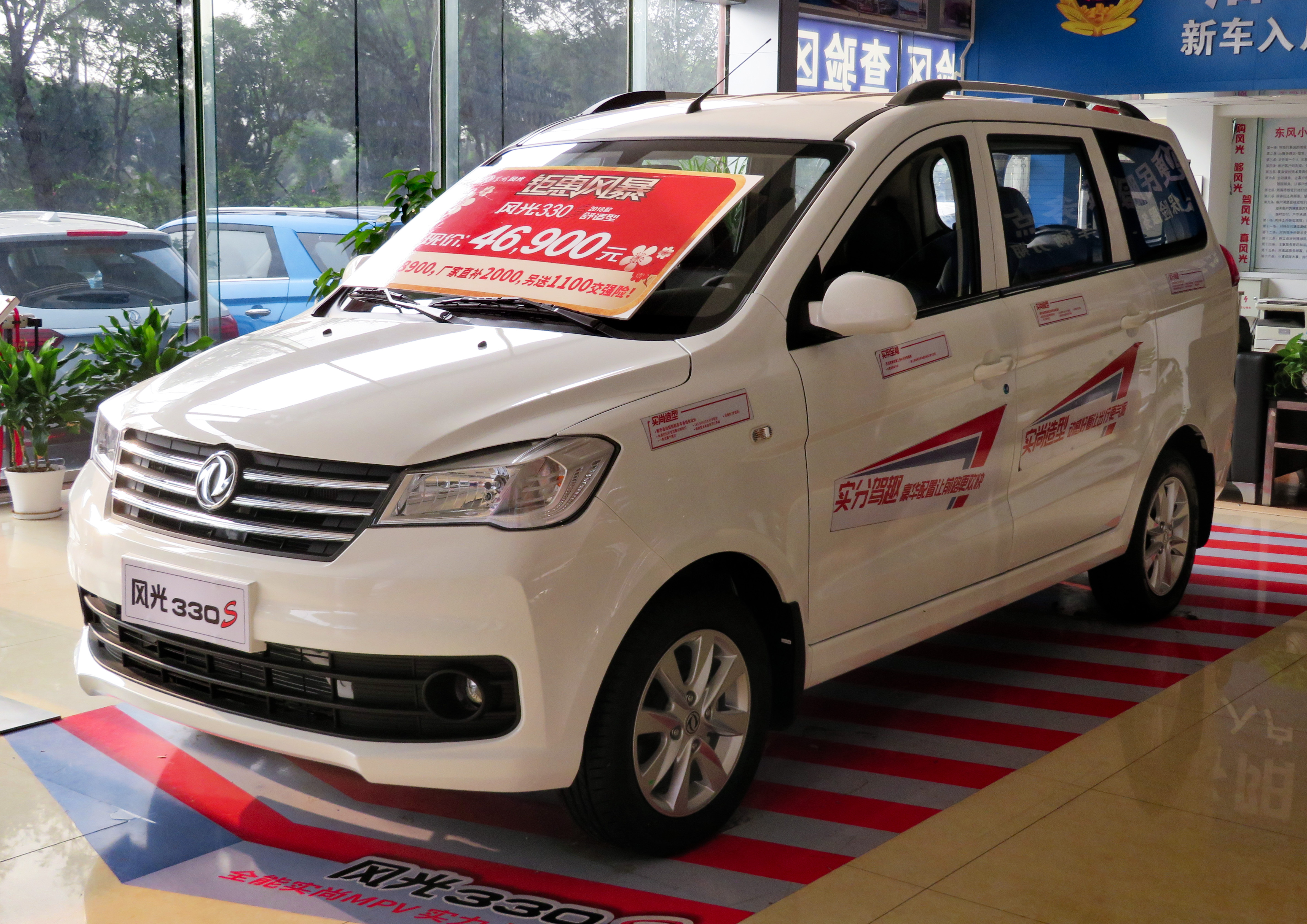 A 2018 Dongfeng-Fengguang 330S photographed at Guanlinzhen, in Luoyang, Henan province, China